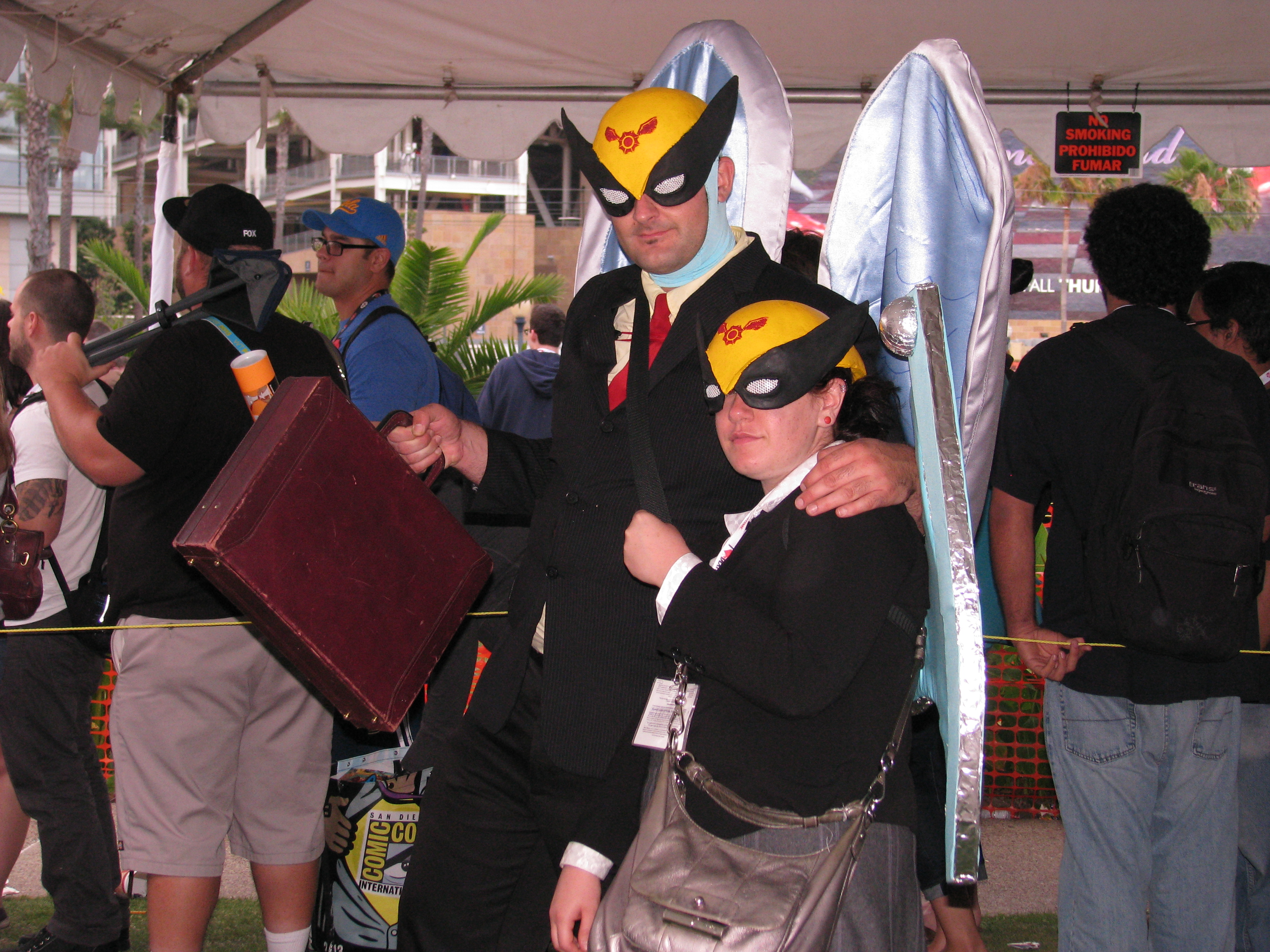 Cosplay of Harvey Birdman